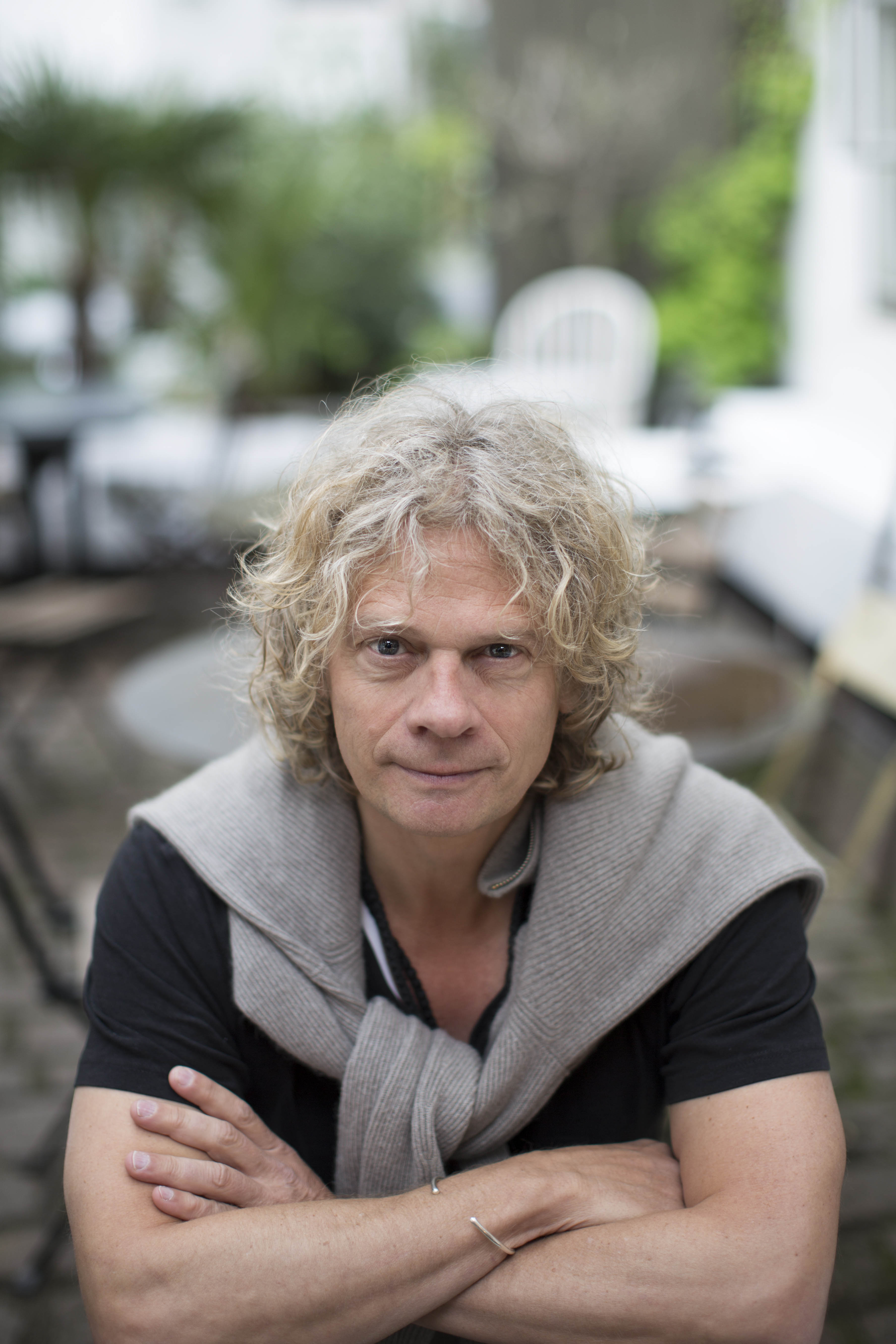 Vetle Lid Larssen portrait